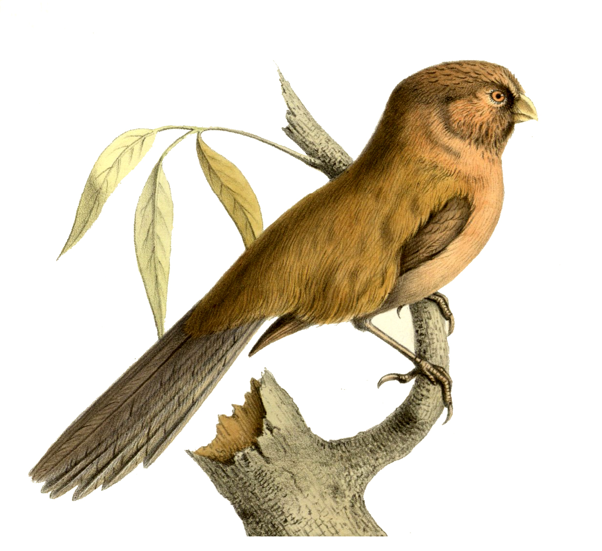 Paradoxornis unicolor syn. 'Cholornis unicolor